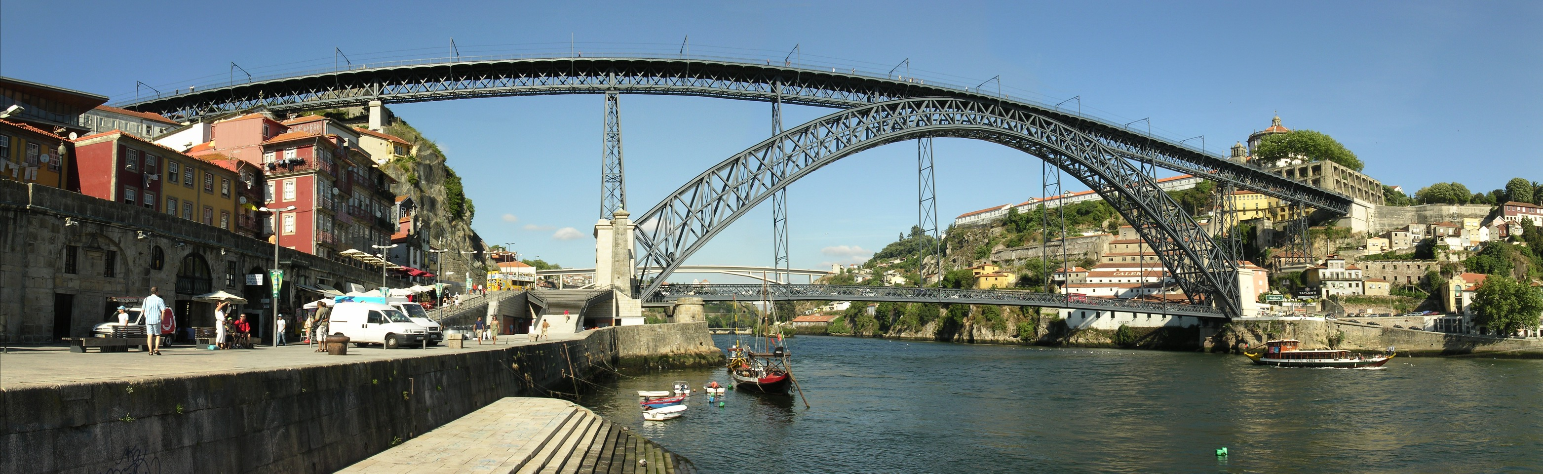 The Dom Luis I Bridge (Ponte Dom Luís I), in Porto, Portugal, viewed from the northwest riverbank, in 2006